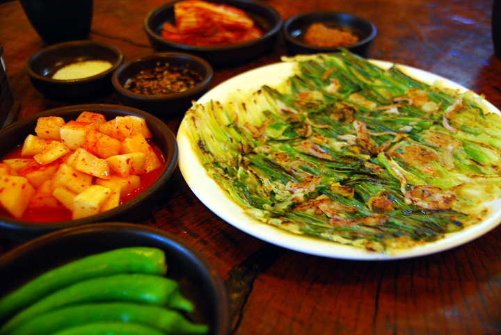 Haemulpajeon (seafood scallion pancake)